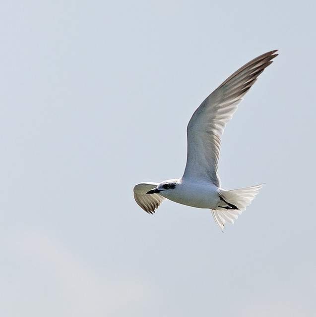 Gull-billed Tern Gelochelidon nilotica, adult non-breeding; Pulicat, Thiruvallur District, Tamil Nadu, India.